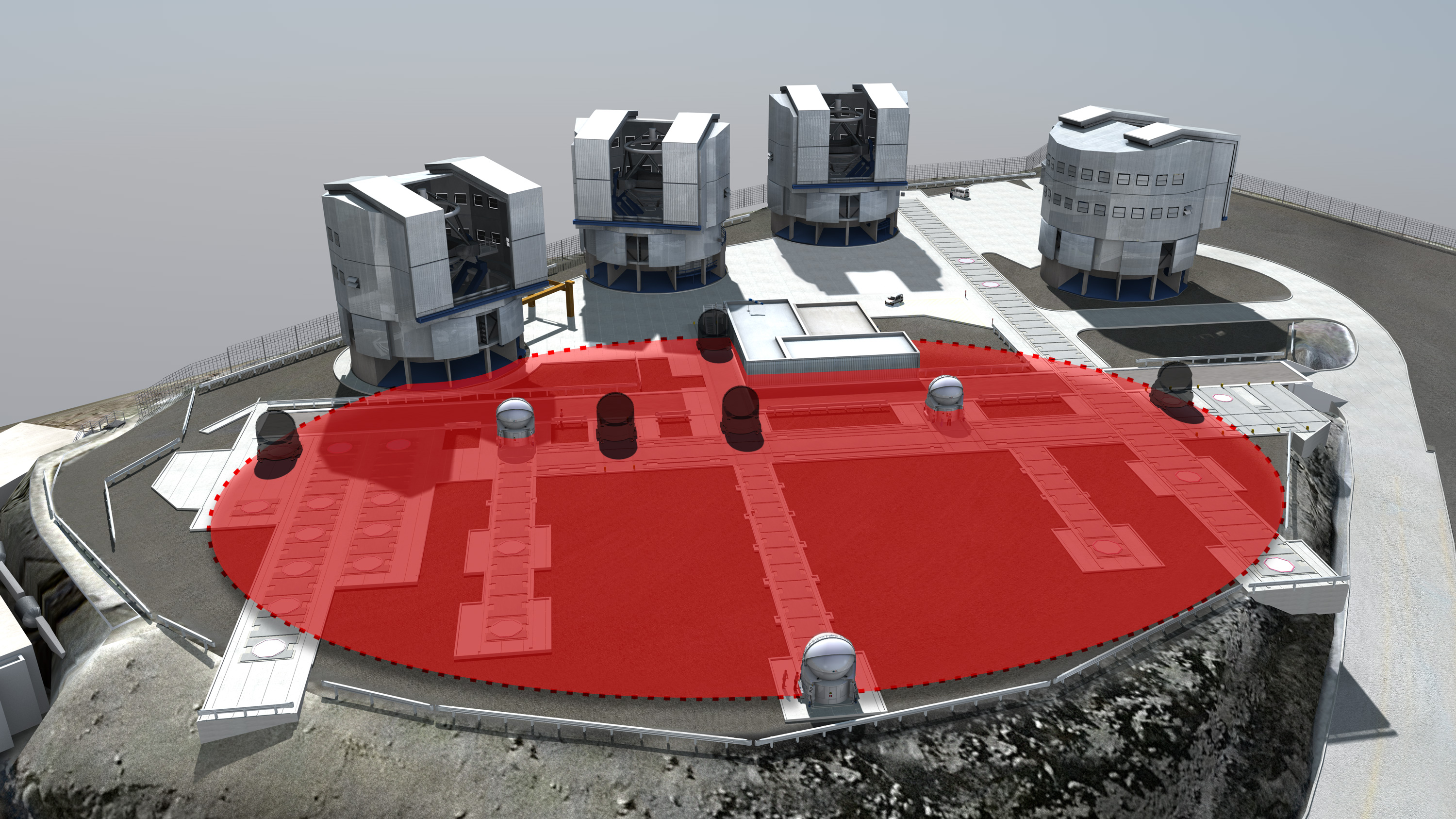 Light collected by three VLT Auxiliary Telescopes, and combined using the technique of interferometry, provides astronomers with vision as sharp as that from a giant telescope with a diameter equal to the largest separation between the telescopes used. To obtain the image of T Leporis using data from the Very Large Telescope Interferometer, astronomers used the four 1.8-metre Auxiliary Telescopes in different configurations to mimic a telescope almost 100 metres in diameter, as represented schematically on this artist’s impression of the Paranal platform.